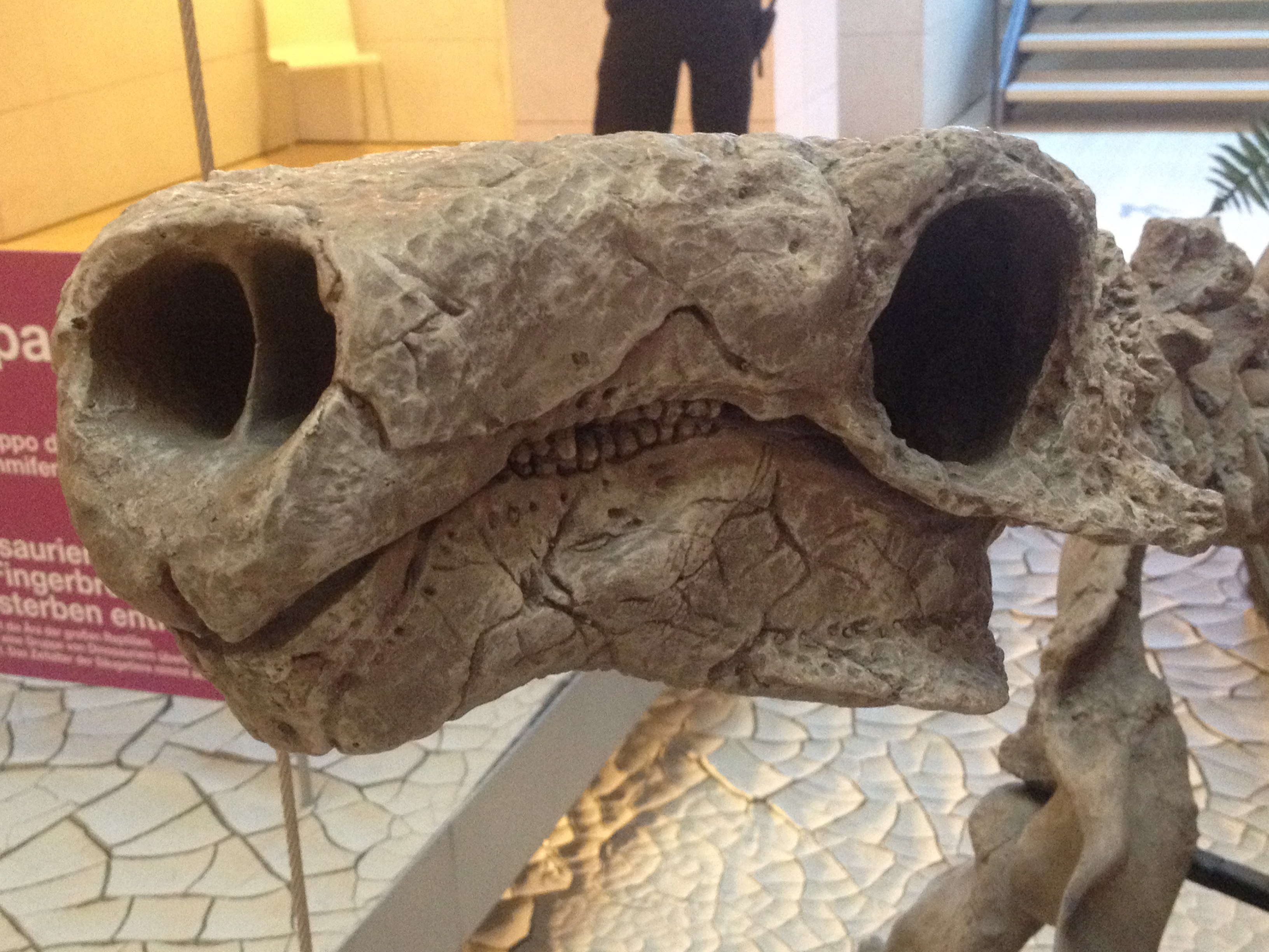 Talarurus skull